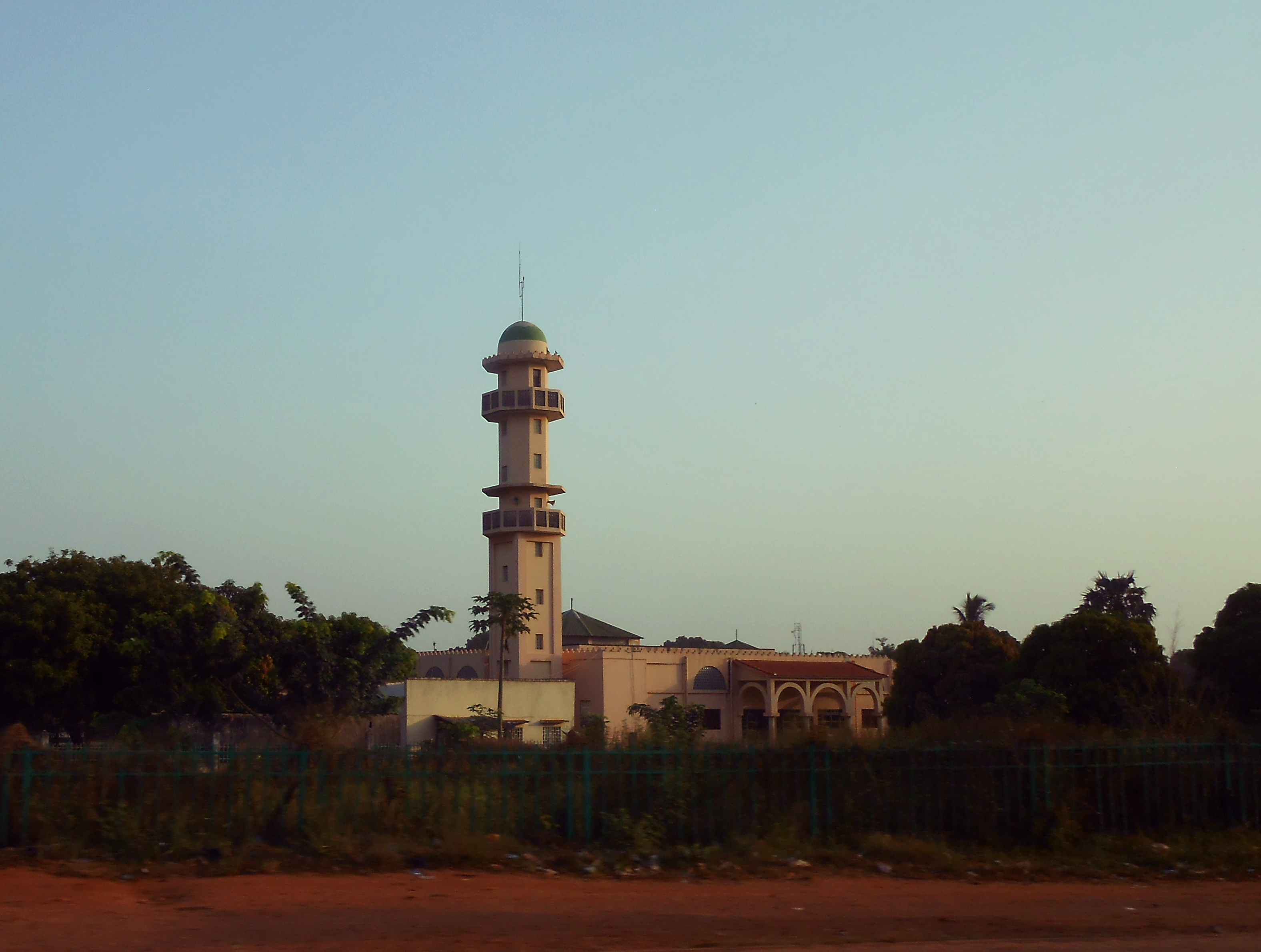 Mosque at the Bissau city limits.